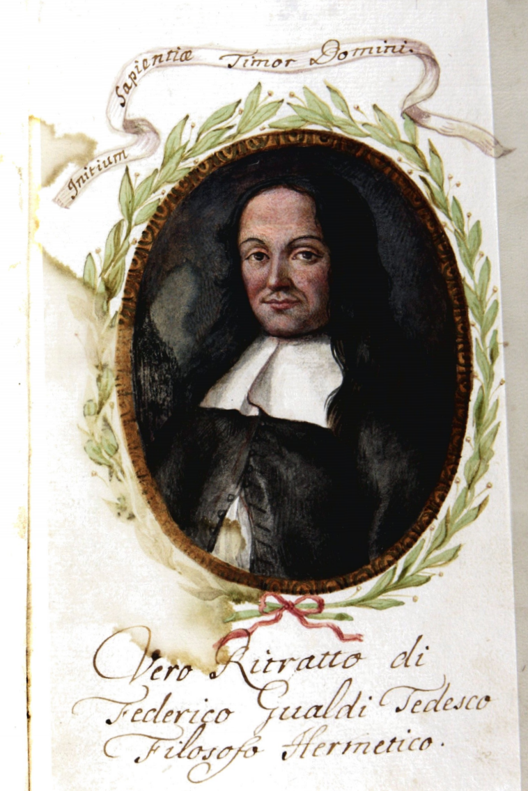 Ritratto di Federico Gualdi